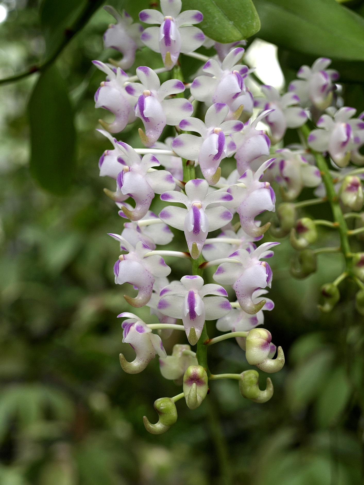 Aerides odoratum. Wertheim Conservatory, Florida International University, Miami, Florida, USA. Aptly named -- the flowers are very fragrant with an aroma that reminds me of lemon oil-based furniture polish. Follow what's in bloom at